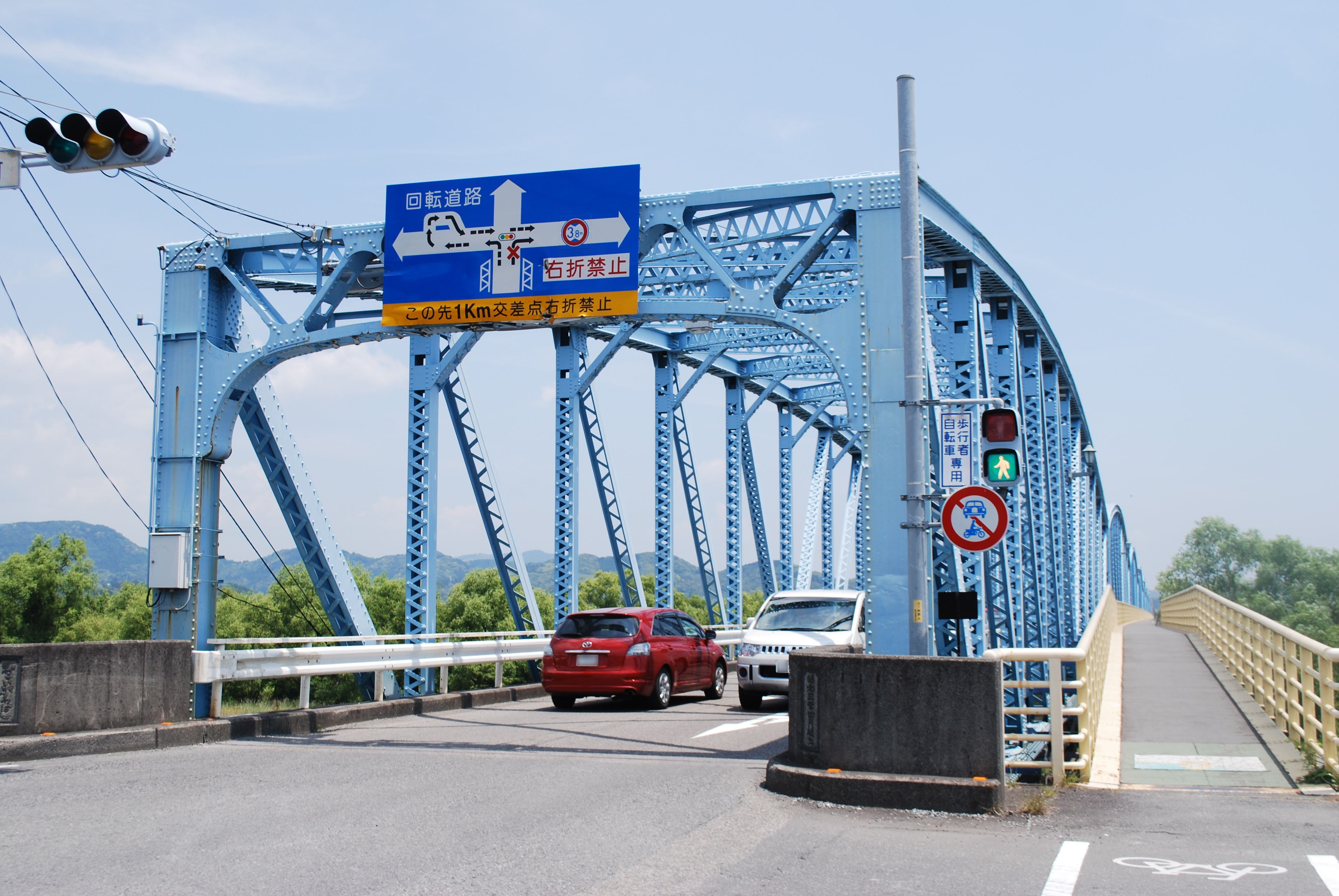 Oigawa-bridge,Old National highway No.1,Shimada-city,Japan